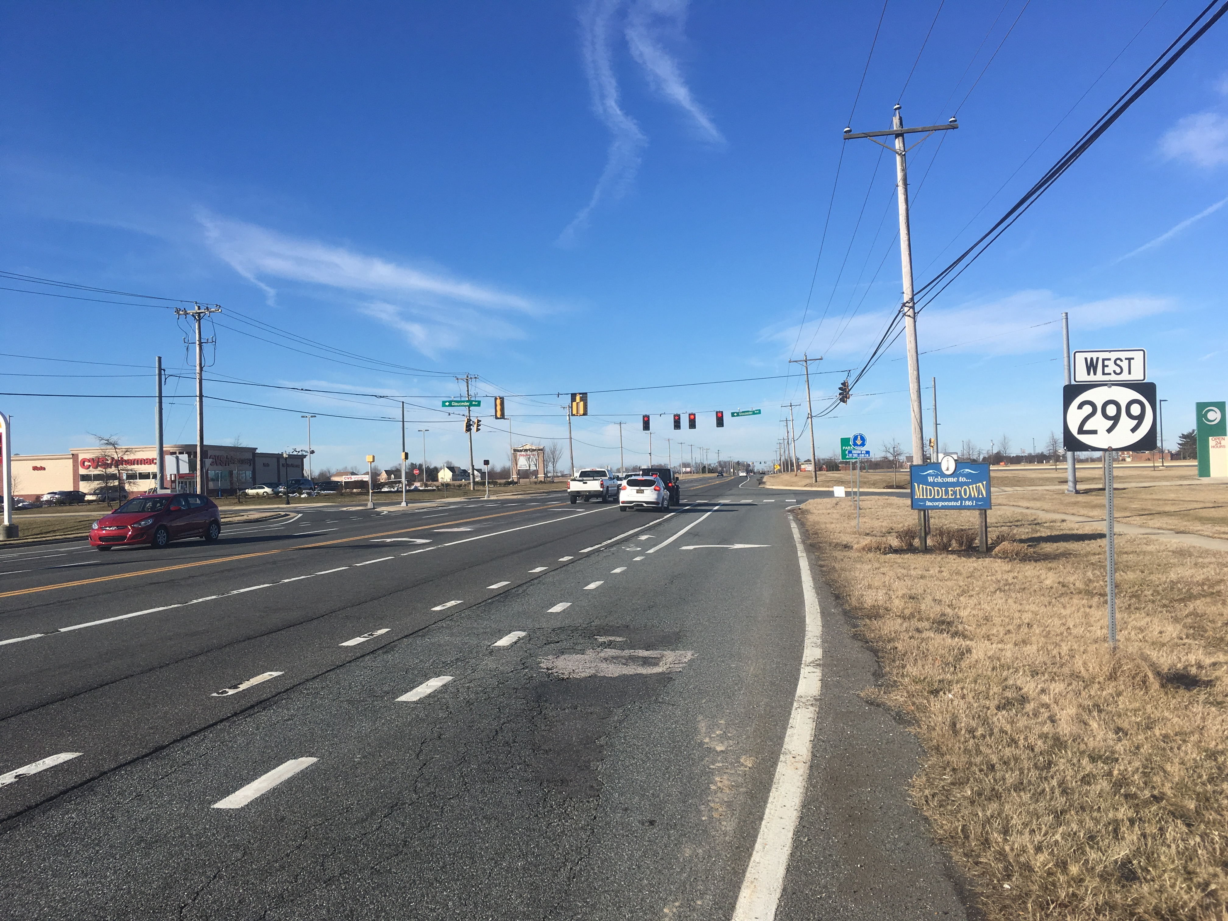 Westbound Delaware Route 299 (Middletown Odessa Road) past the interchange with Delaware Route 1 in Middletown, Delaware